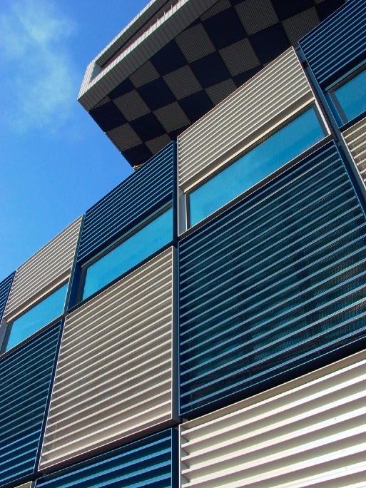 Corrugated panels on the Shipping and Transport College in Rotterdam, The Netherlands, by Neutelings-Riedijk Architects.